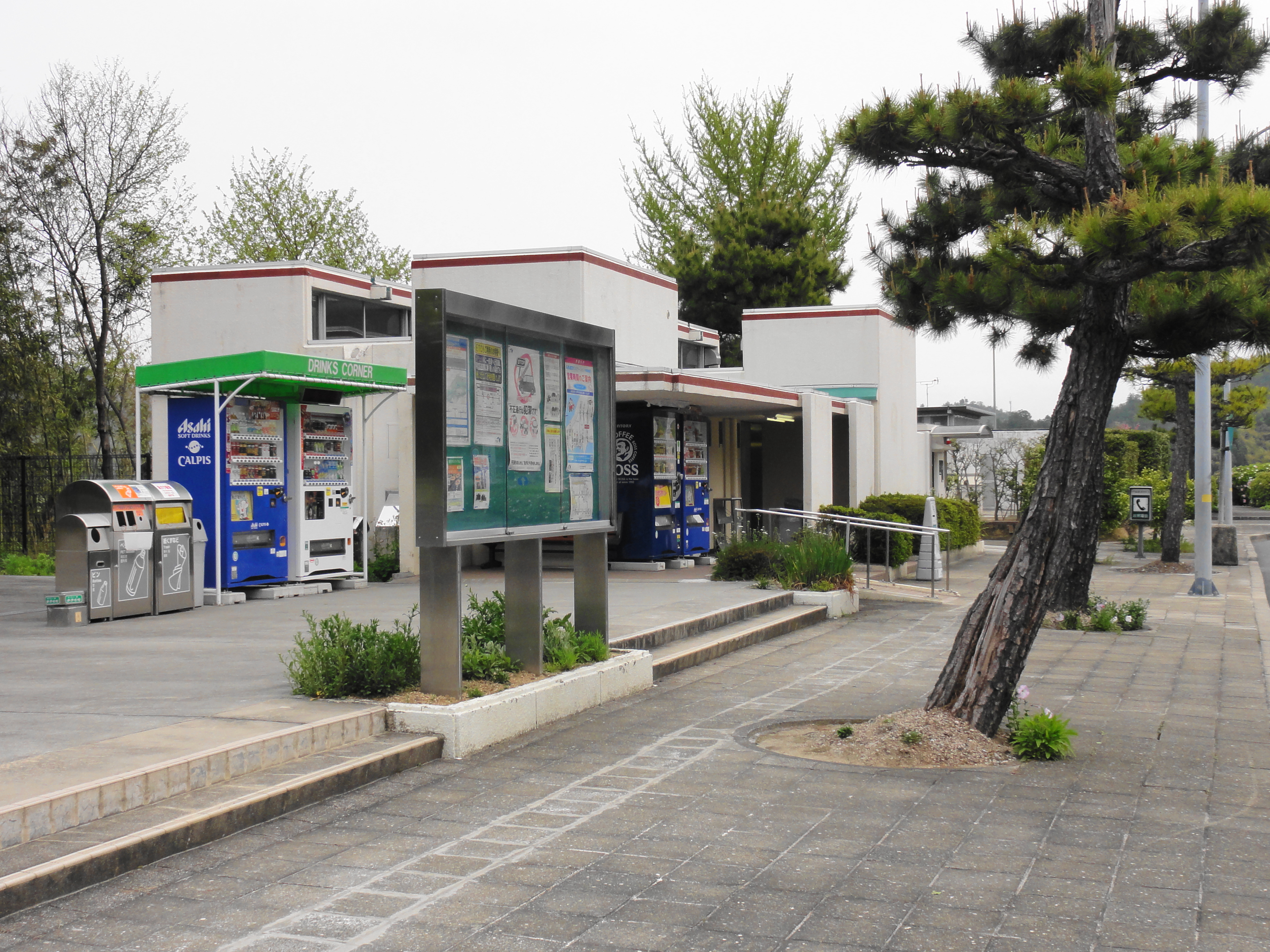 Yuda Parking Area,Yamaguchi prefecture,Japan